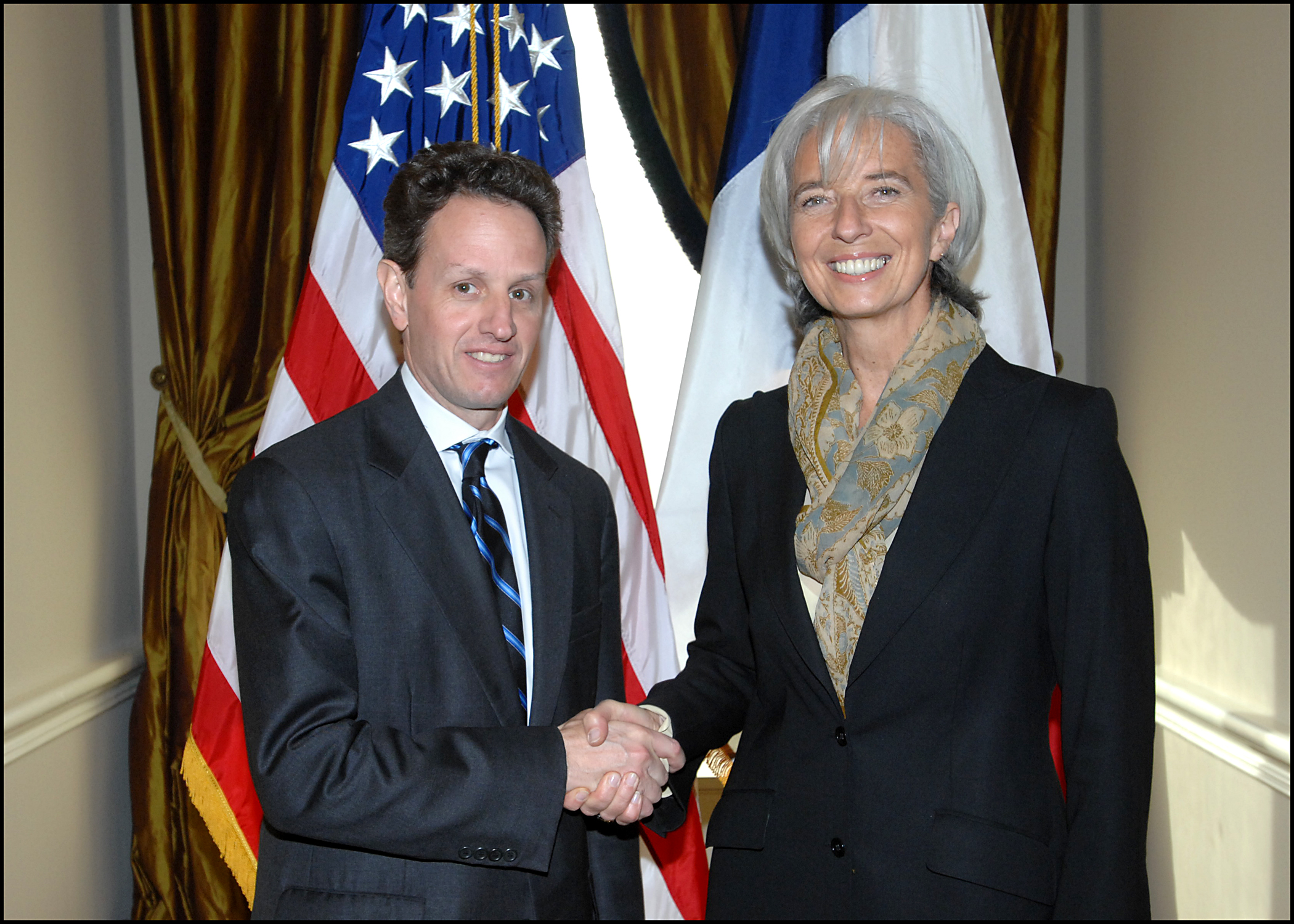 On February 19, 2009, Secretary Tim Geithner met with French Minister of Economy, Industry and Employment Christine Lagarde at the Treasury Department in Washington, DC